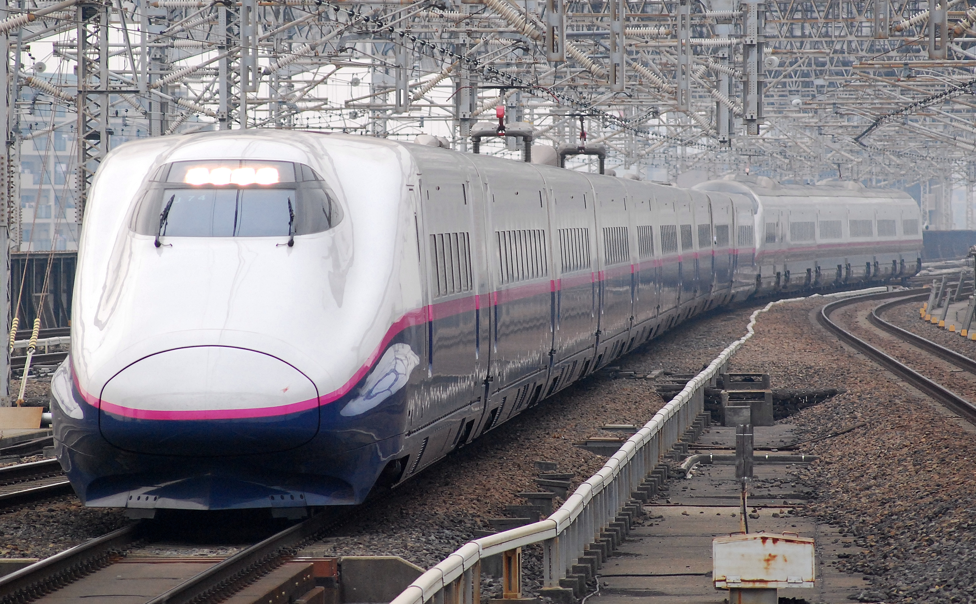 A JR East E2+E3 series shinkansen formation approaching Omiya Station on a combined Hayate/Komachi service